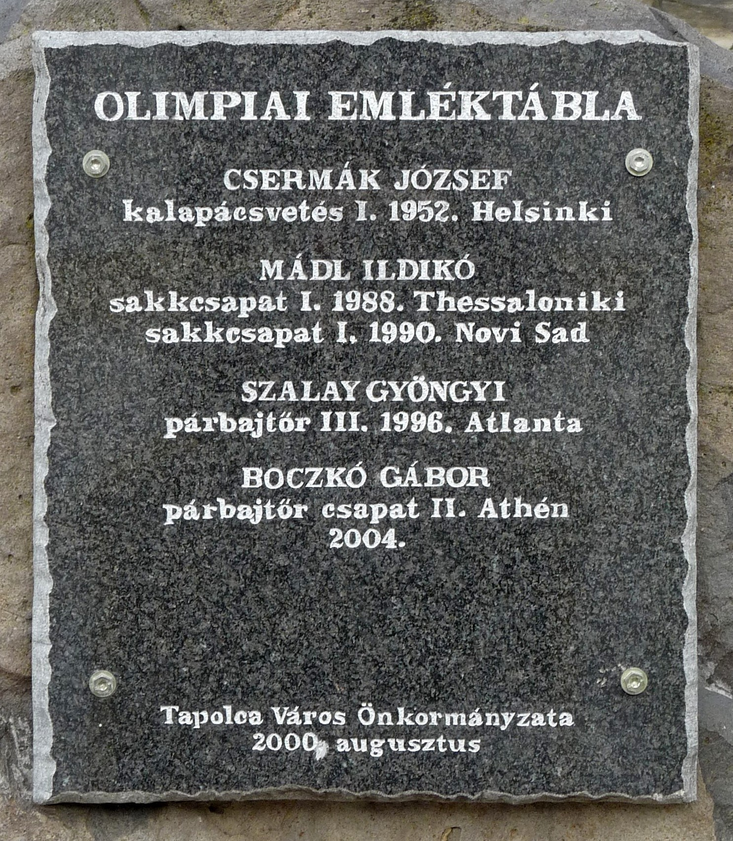 Plaque commemorating the olympians that are related to the city of Tapolca: József Csermák - hammer throw, 1st place, 1952, Helsinki; Ildikó Mádl - chess team, 1st place, 1988 Thessaloniki and chess team 1st place, 1990, Novi Sad; Gyöngyi Szalay - épée, 3rd place, 1996, Atlanta; Gábor Boczkó - épée Team, 2nd place, 2004, Athén. (Tapolca, Deák Ferenc Street Nr 21)